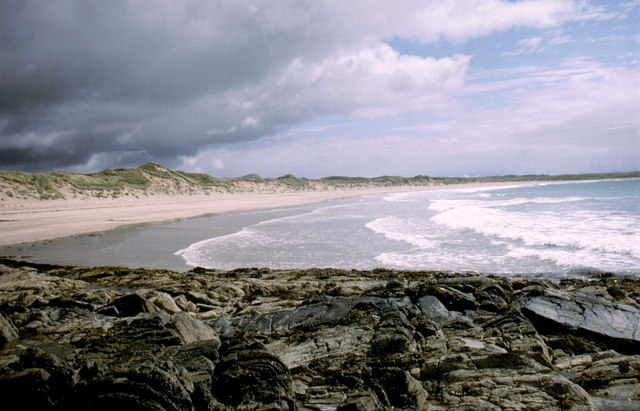 Crossapol Bay, Coll. The sands and dunes of Crossapol Bay near the south end of Coll.